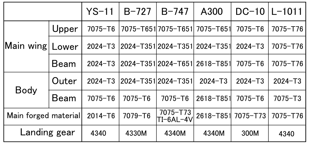 Jetplane Materials (6 types).